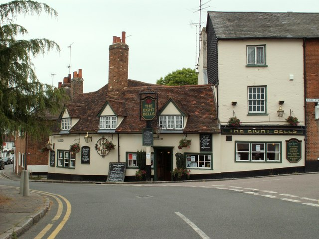 'The Eight Bells' inn at Old Hatfield 'The Eight Bells' inn is described by Charles Dickens in Oliver Twist as a temporary resting place for Bill Sykes, on the run from central London, after murdering Nancy. The inn stands on the corner of Fore Street and Park Street.